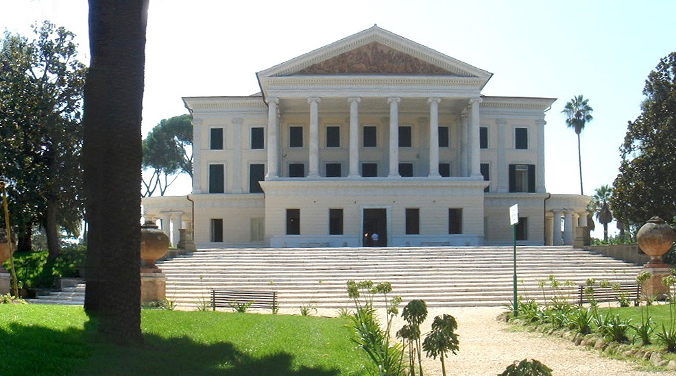 Roma, Villa Torlonia: la Villa nel giardino. This is a modified version of the following picture: Image:Villa Torlonia 01302-4.JPG, uploaded by Lalupa on 16:41, 11 September 2006